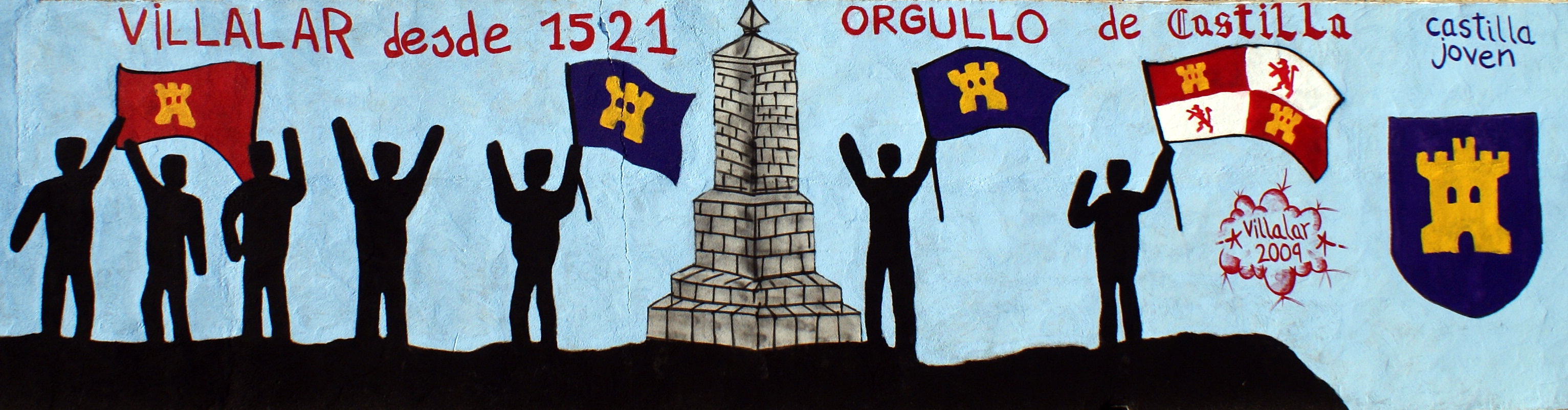 Castilian nationalist mural in Villalar de los Comuneros, Valladolid, Spain